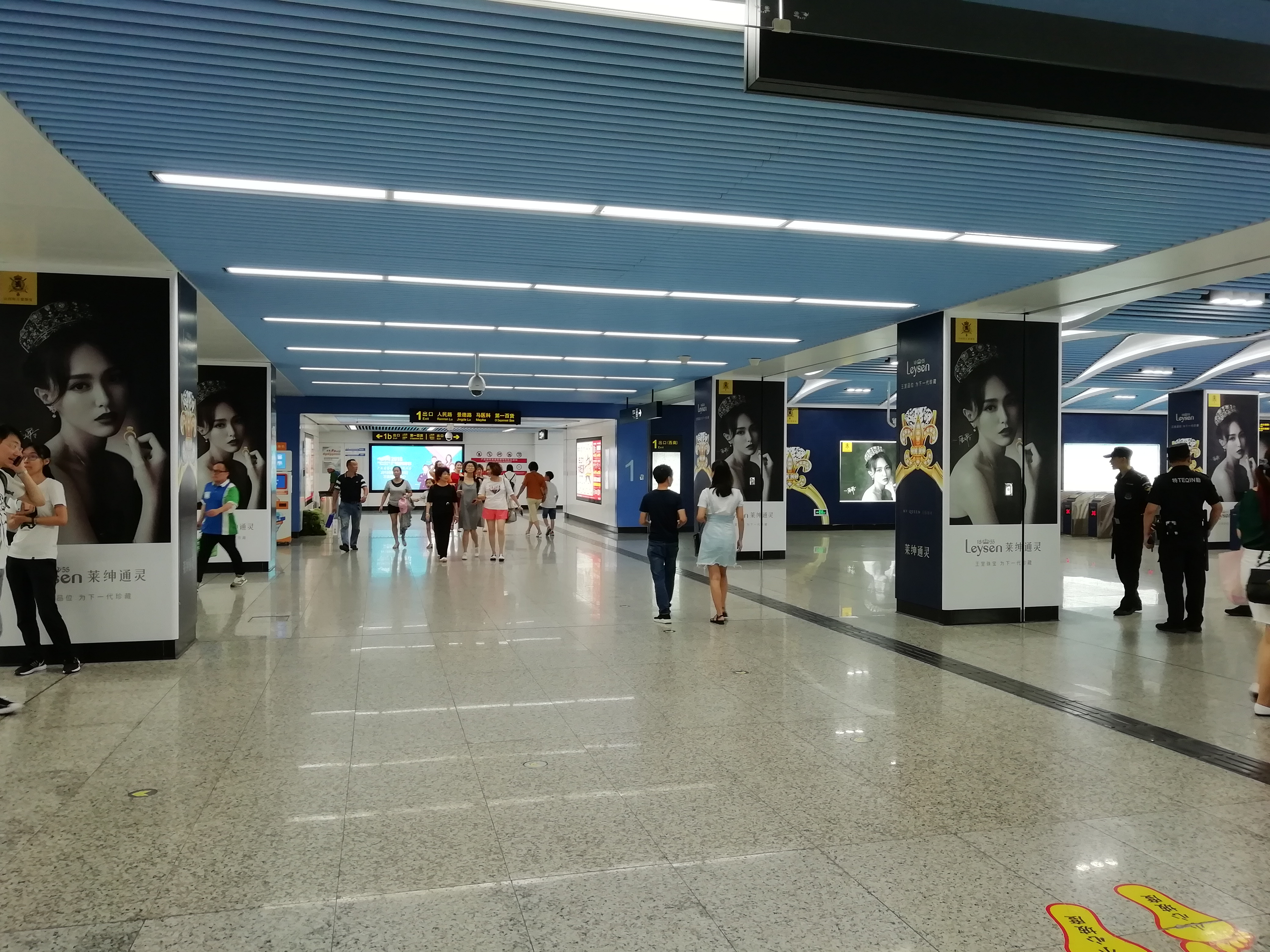 Station Hall of Chayuanchang Station of Line 4, Suzhou Rail Transit. Previously, this is an underground passage and an underground department store.